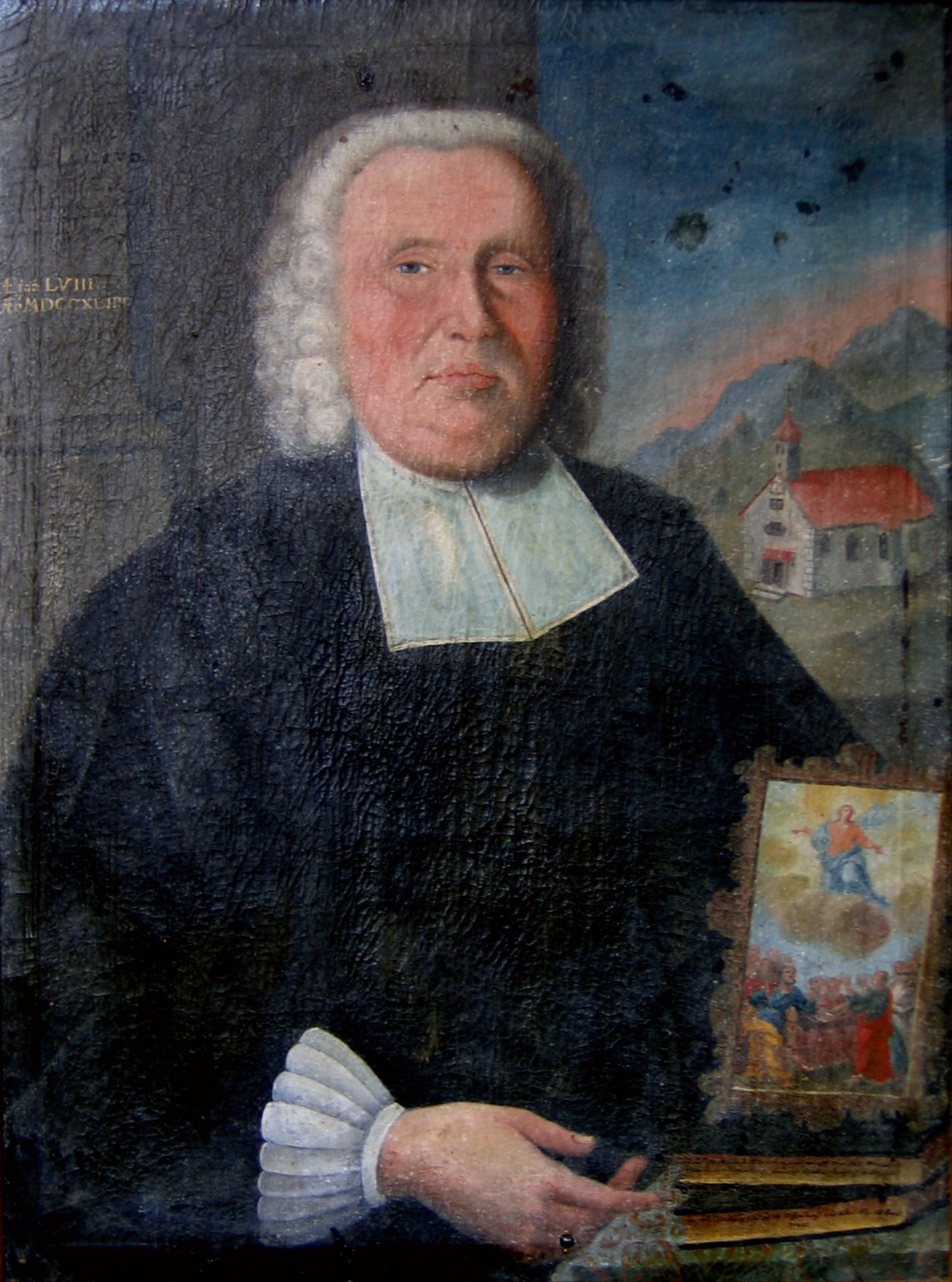 Portrait of Johann Melchior Sauter (1686-1746); german doctor, dean and priest